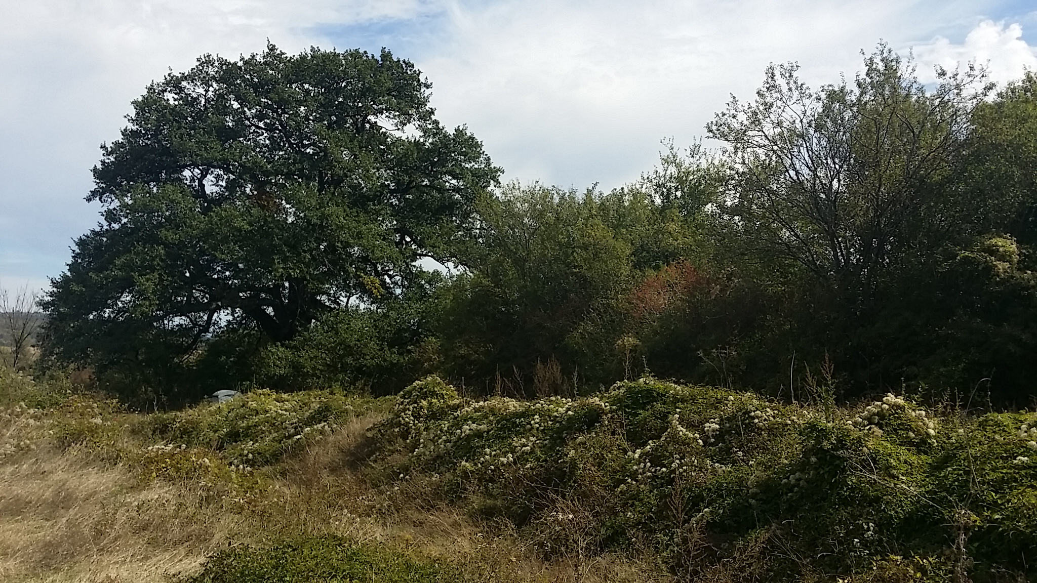 Вековно дъбово дърво - Село Рани Луг